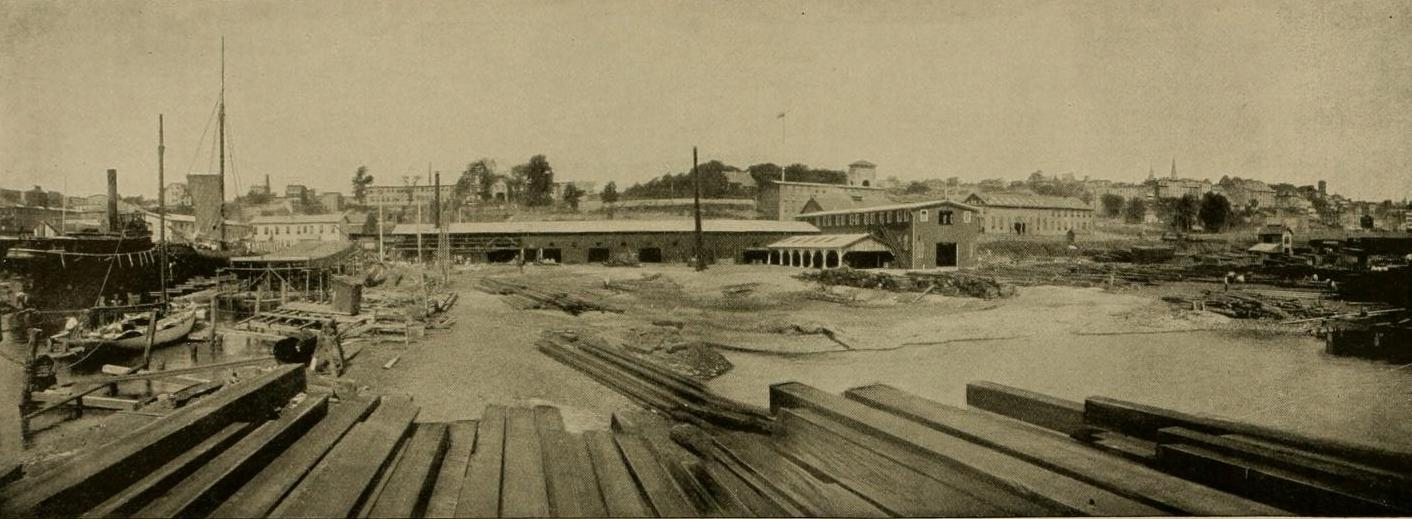 The Thomas S. Marvel Co. Shipyard in Newburgh, New York, circa 1890. Towards the middle of the image, closer to the right, Washington's Headquarters and the Tower of Victory are visible.